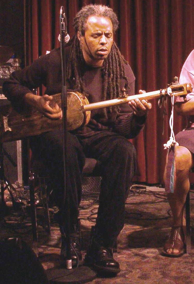 Jam Night at the Ottawa Jazz Festival 2003. The music was frenetic, but the lighting makes this photo look like it was a bluesy, moody number. This is Hassan Hakmoun on the sintar and vocal.